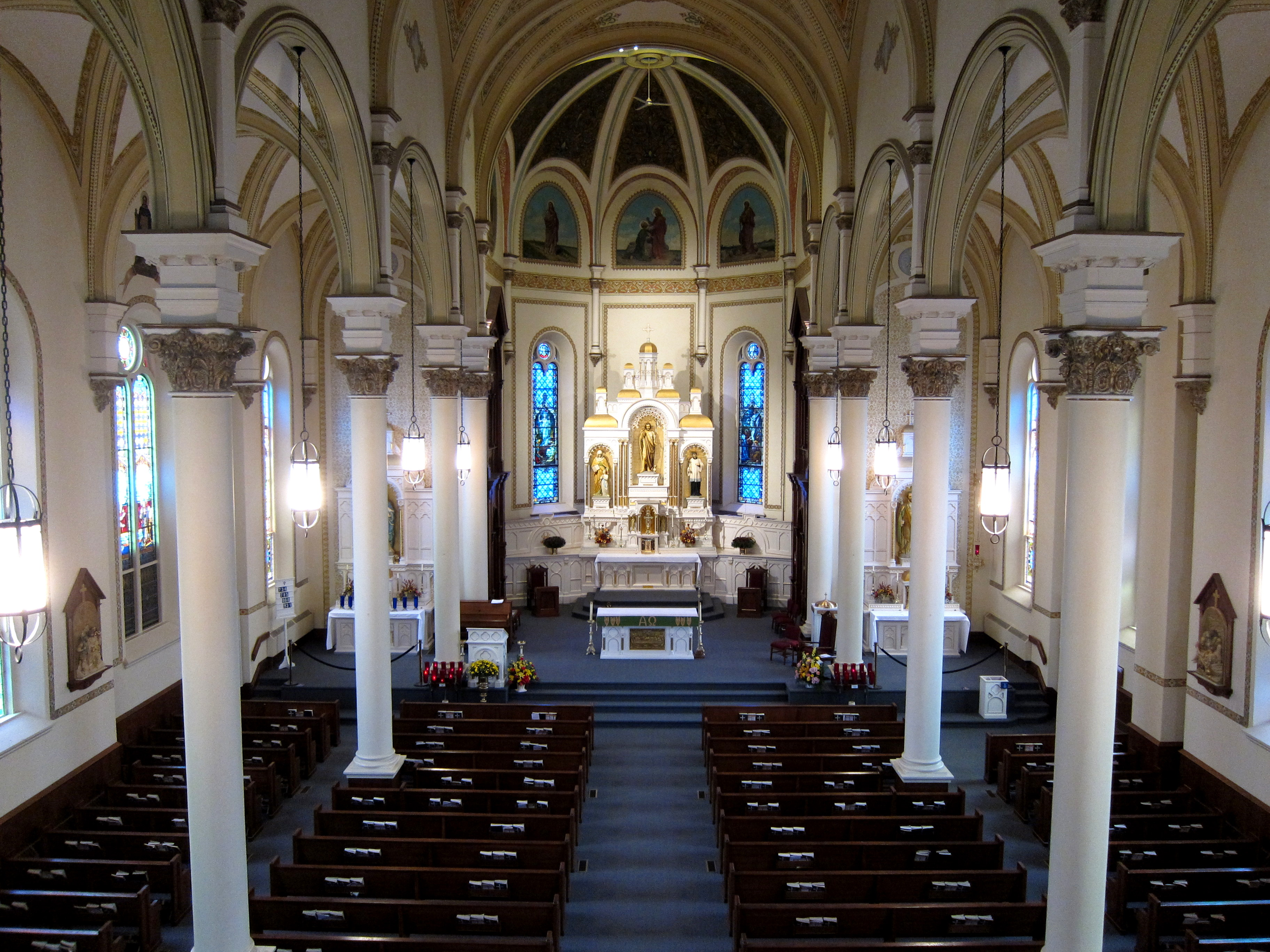 Saint John the Baptist Church (Maria Stein, Ohio) - interior, nave viewed from choir loft